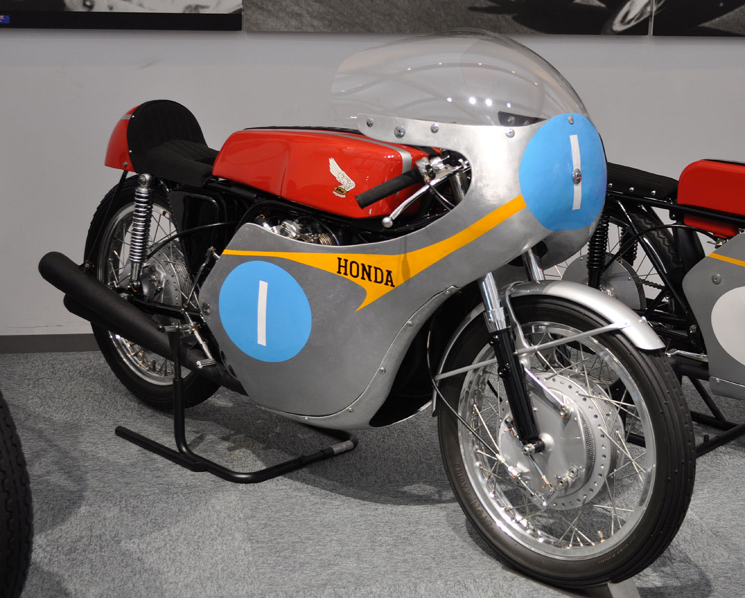 Honda RC171 (Jim Redman, 1962)